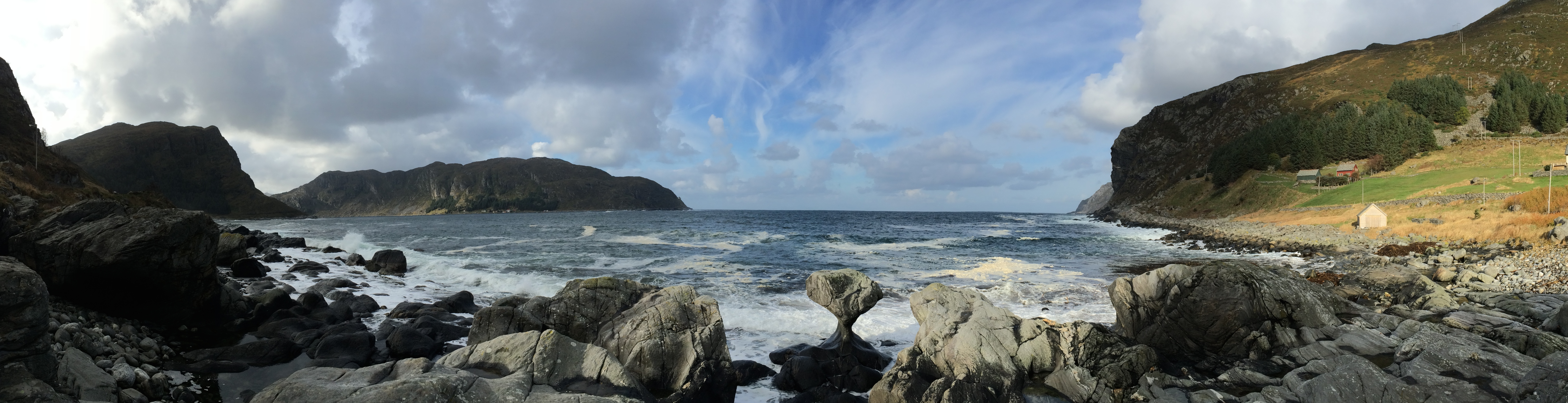 Fold-out-panorama of Kannesteinen, a characteristic mushroom shaped rock located in Vågsøy municipality in Sogn og Fjordane county, Norway. (iPhone panoramic photo, distortion may occur in details and continuity.)